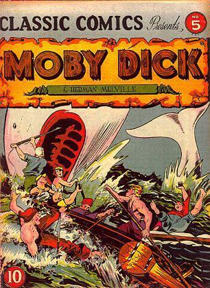 Cover scan of a Classics Comics book